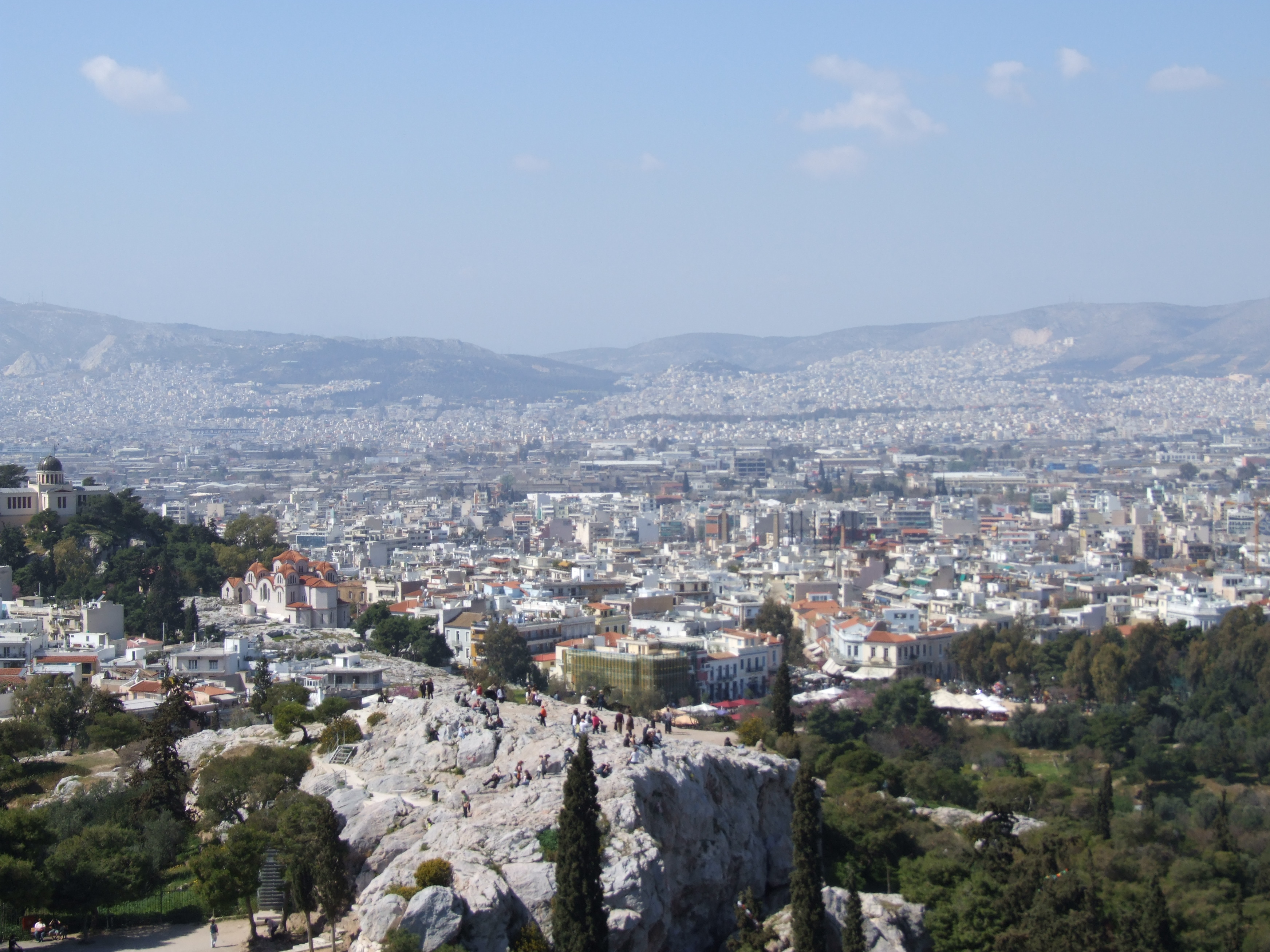 A view over Athens from the Acropolis